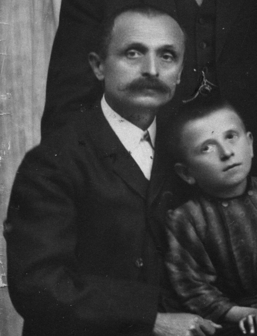 Kristo Sulidhi holding a child